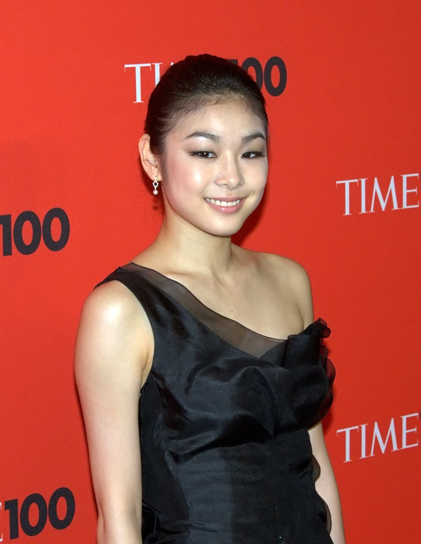 Kim Yu-Na at the 2010 Time 100.